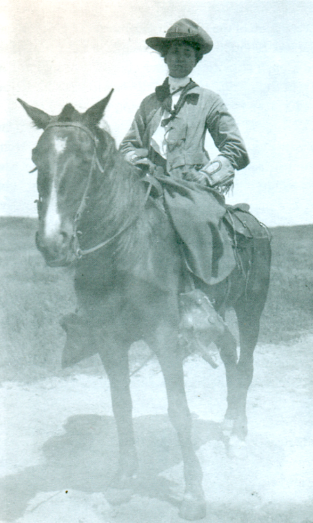 Laura Cornelius Kellogg in Southern California, 1902 Other information No.